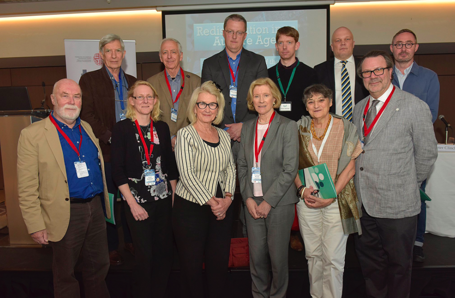 Esteemed speakers from the 2018 FEPS-TASC Annual Conference 'Redistribution in an Austere World'.